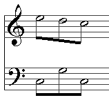 The most basic Ursatz in Schenkerian analysis. Image made with Sibelius and the GIMP.